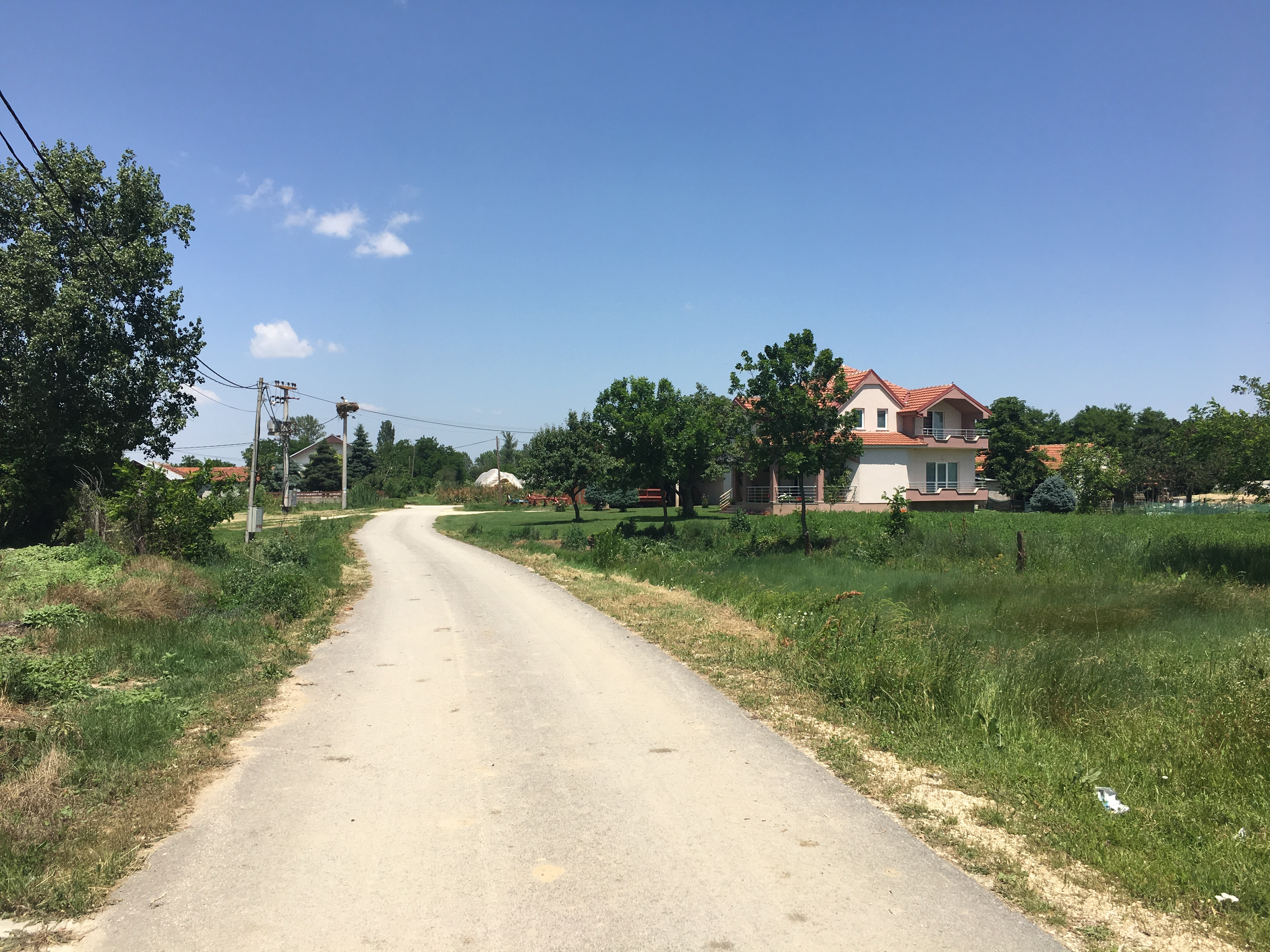 Houses in the village of Radobor